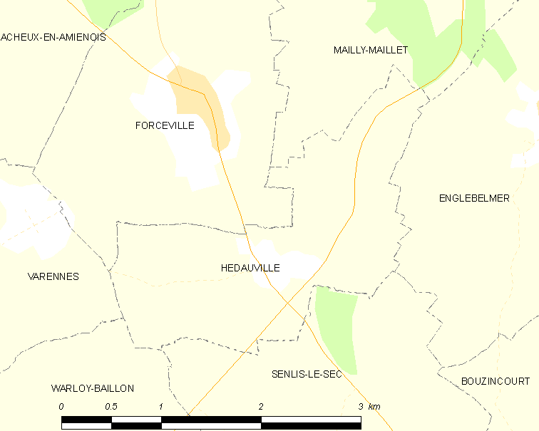 Map of French municipality Hédauville